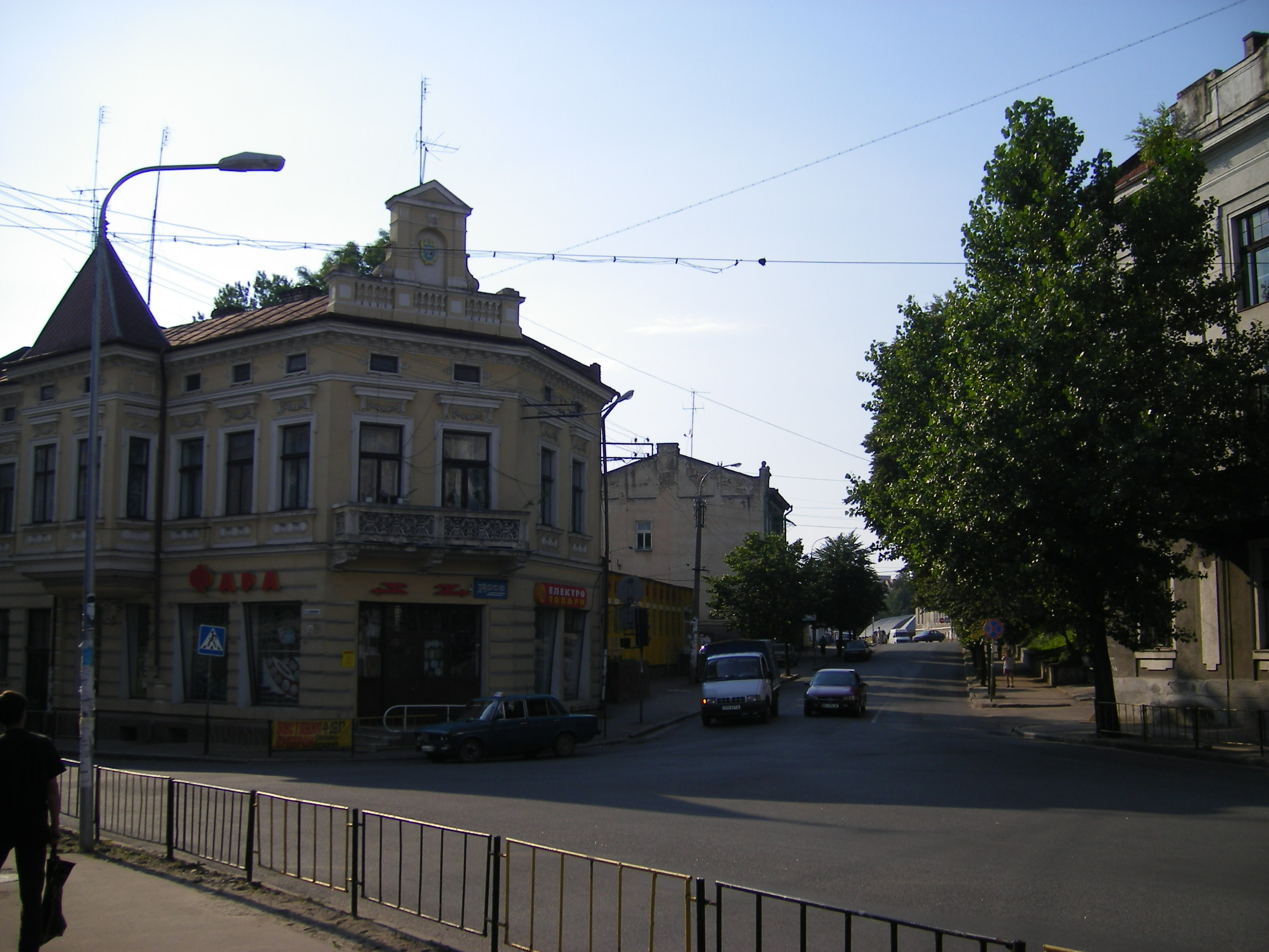 Drohobych, City Centre